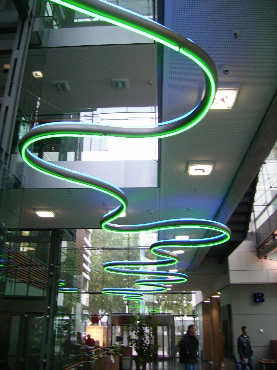 bank in Ludwigshafen,lightsculpture Brainwave (2002) by Jan van Munster Rhineland-Palatinate (Germany)